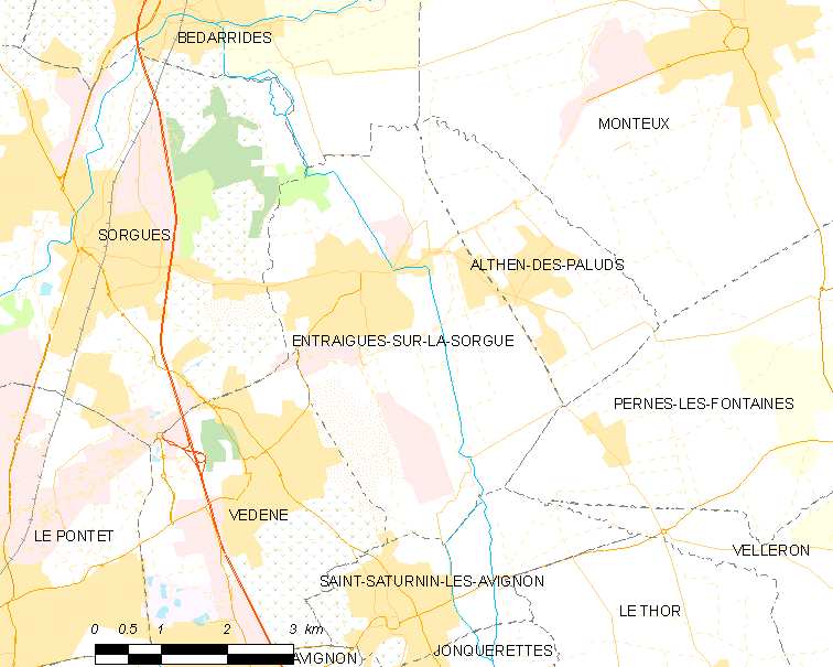 Map of French municipality Entraigues-sur-la-Sorgue